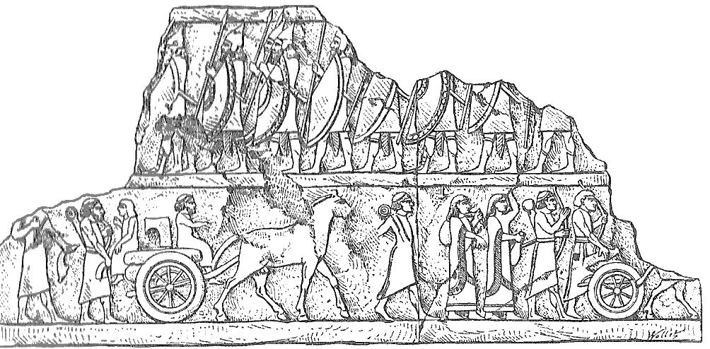 Assyrian army(top). Convoy of prisoners(bottom). Drawing of basrelief from Kouyundjuk (Nineveh).